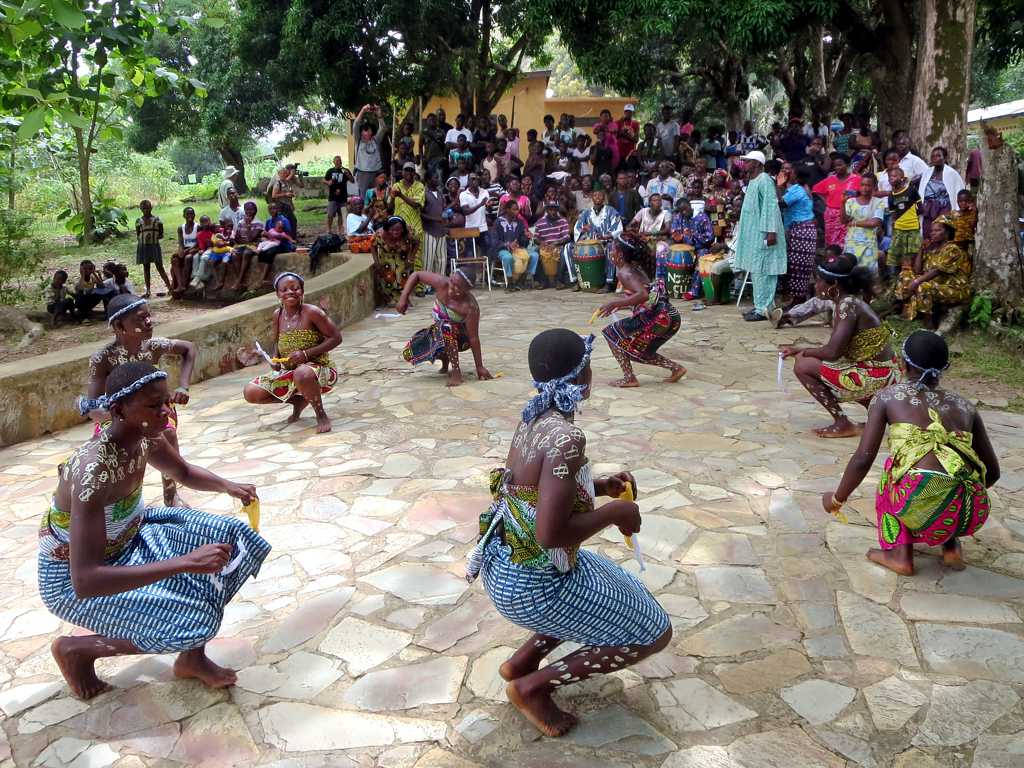 Traditional Ewa dancers perform the Bobobo dance at the Hotel Campement de Kloto in the Forêt de Missahohe at Kouma-Konda village near Kpalimé, Togo.